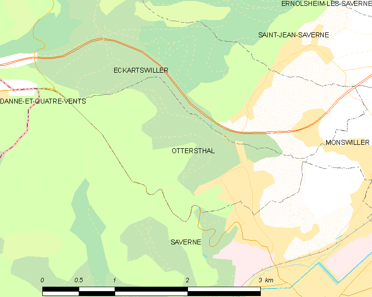 Map of French municipality